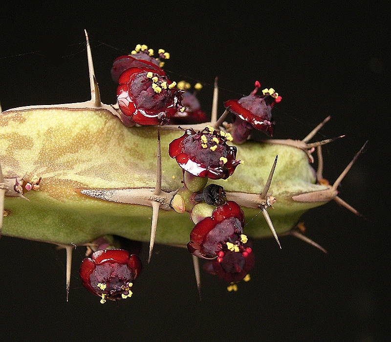 Description: Euphorbia saxorum Source: self-made Date: created 24. June 2004 Author: Frank Vincentz Permission: GFDL (self made) Other versions of this file: available on request